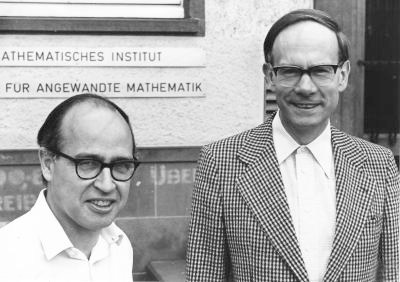 Picture of Michael Atiyah (left) and Friedrich Hirzebruch (right), from the Oberwolfach photo collection